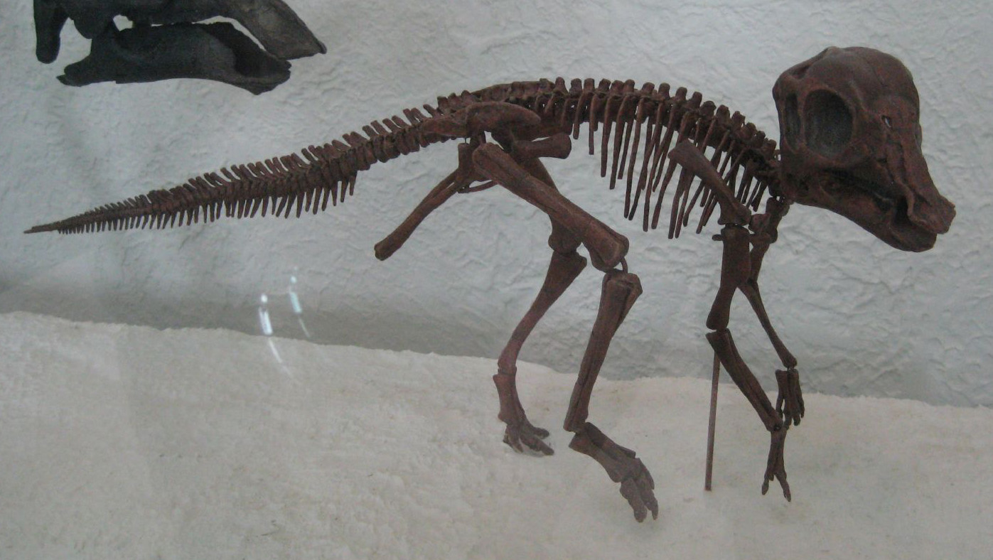 Hypacrosaurus altispinus, American Museum of Natural History. This one is a baby.